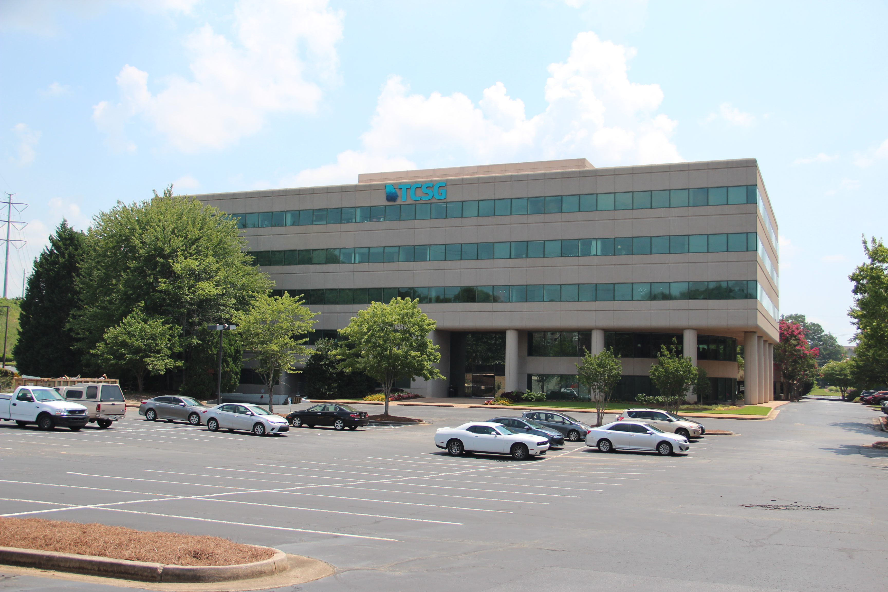 1800 Century Pl, Atlanta, GA